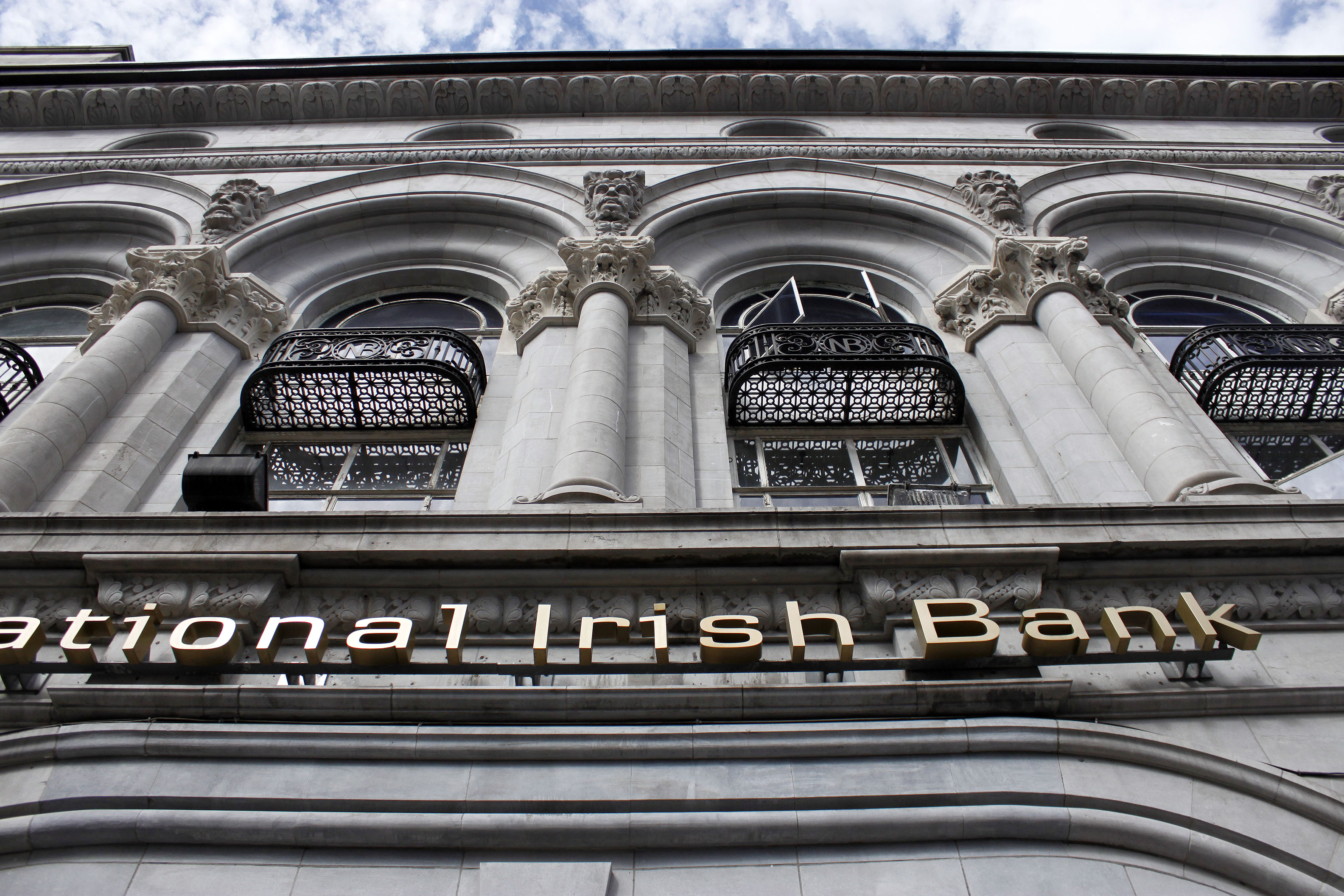 national irish bank